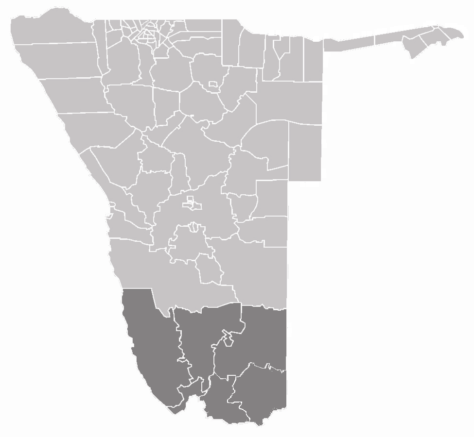 map of the Karas region in Namibia